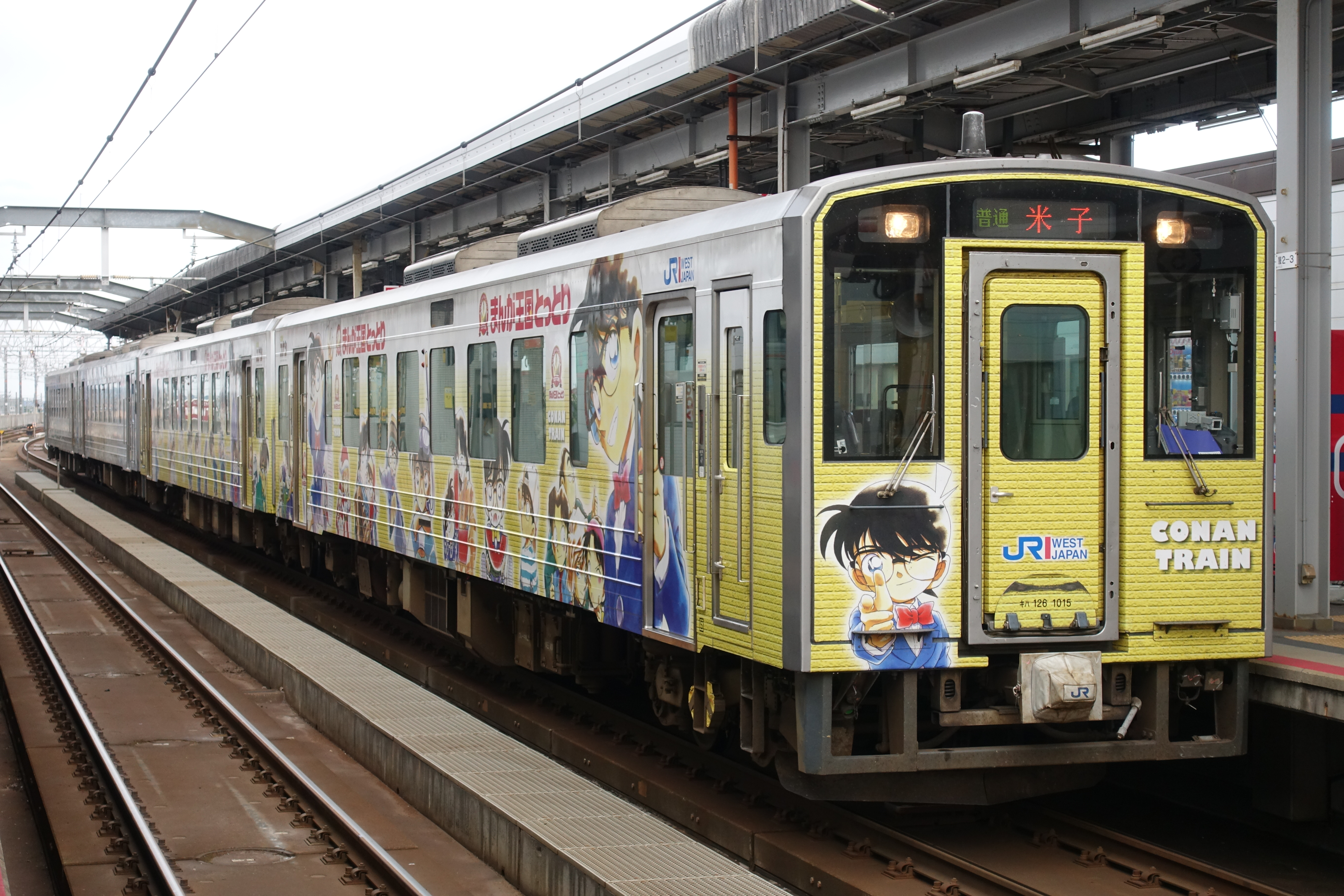 JR West KiHa 126 series "Conan Train" at Izumoshi station.